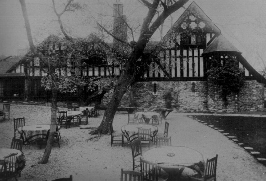 The Old Mill, early 1900´s Original caption: “The Old Mill, early 1900´s”